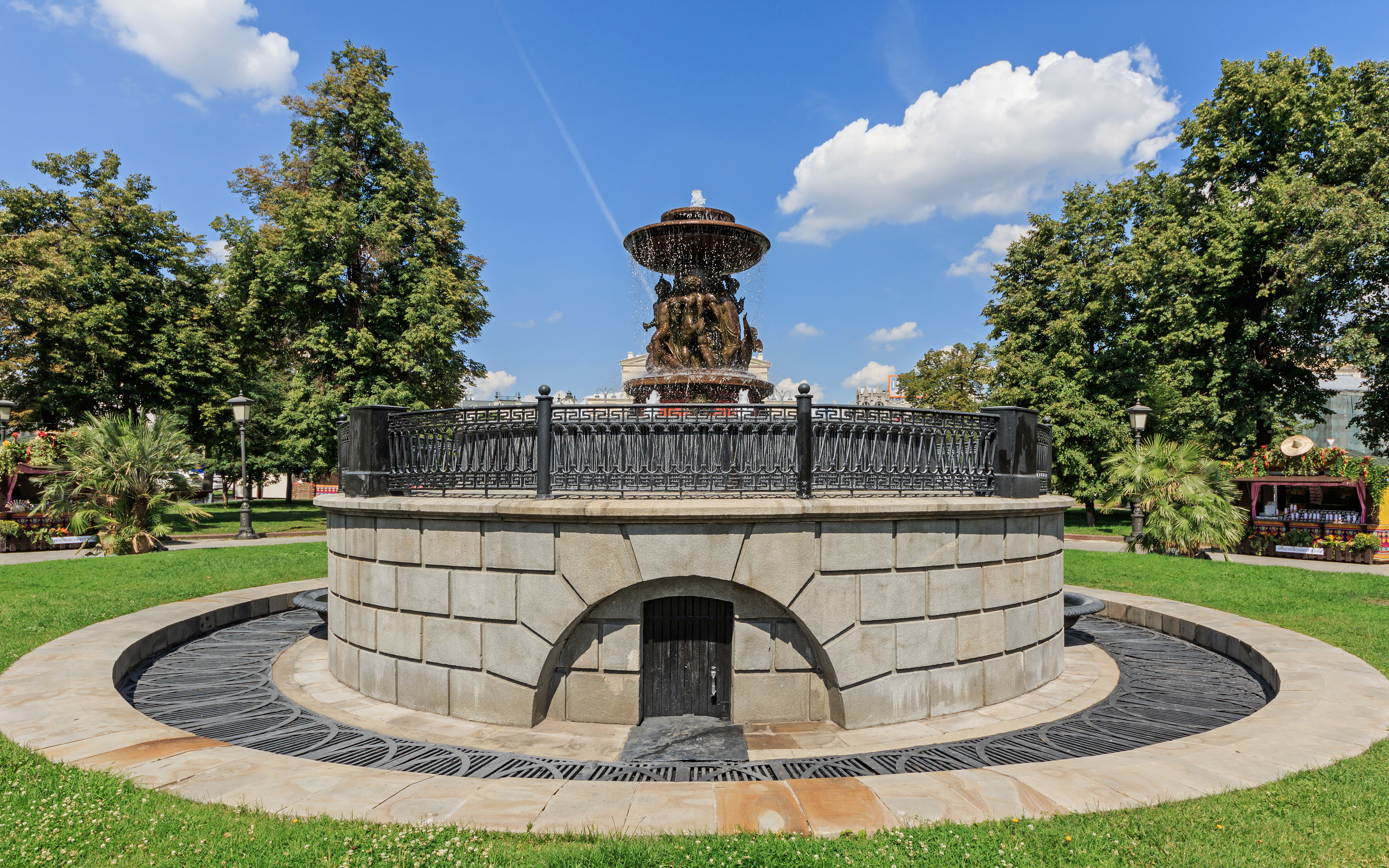 The fountain at the southern side of Teatralnaya Square. Moscow, Russia.